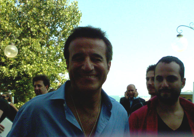 Christian De Sica